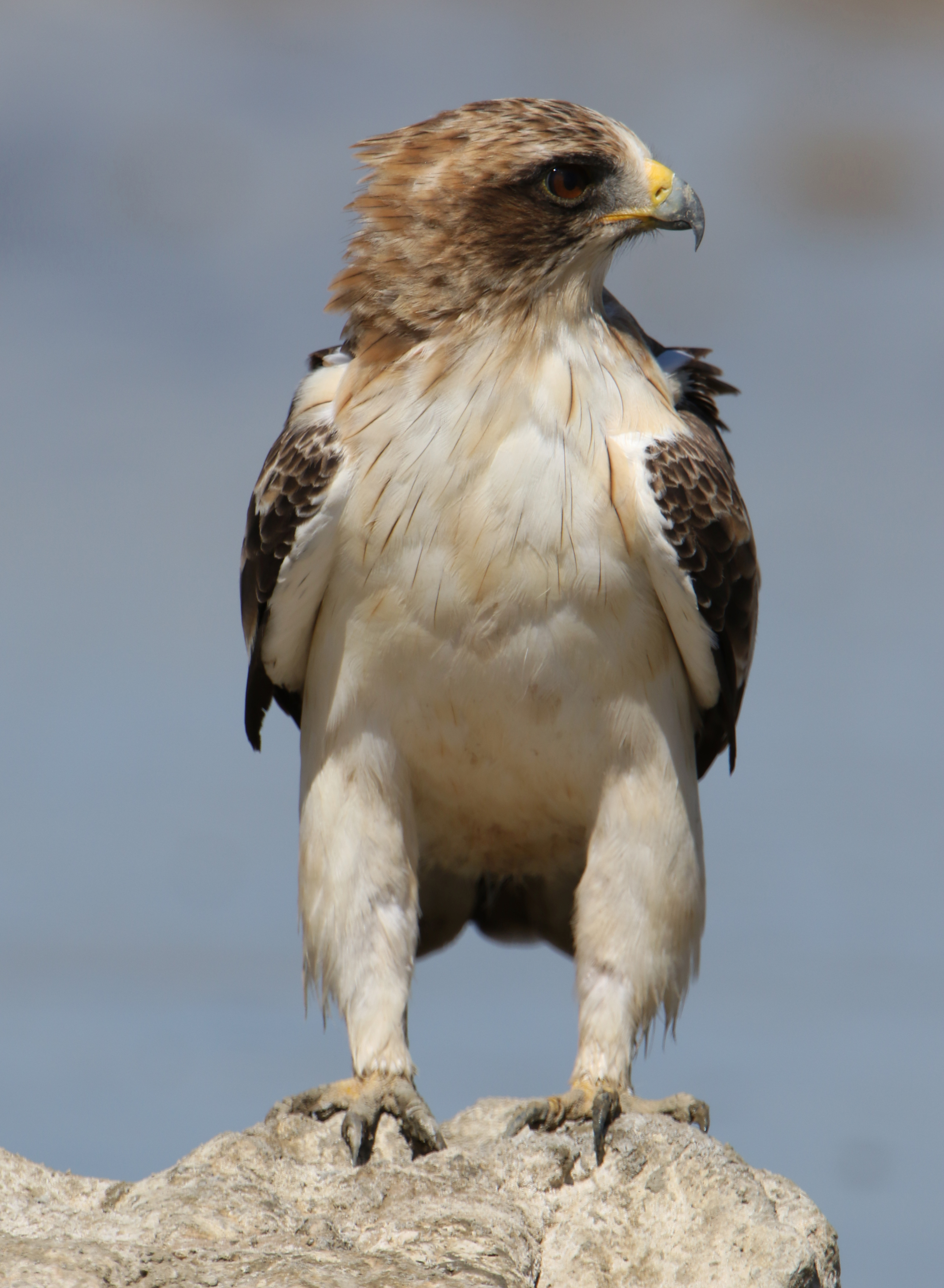 Booted eagle, Hieraaetus pennatus, at Kgalagadi Transfrontier Pa